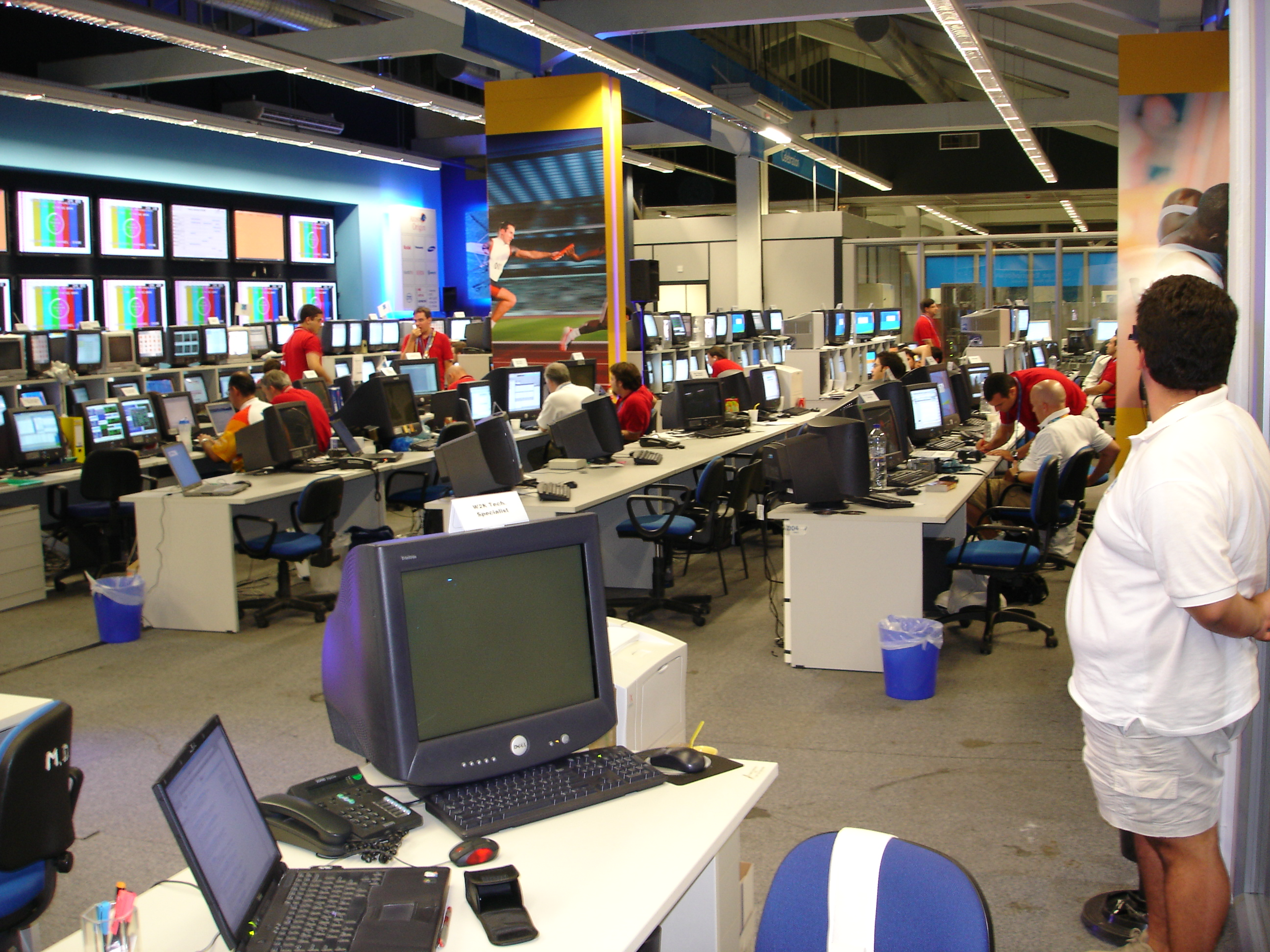 View of the ATHOC Technology Operations Center during the ATHENS 2004 Olympic Games.